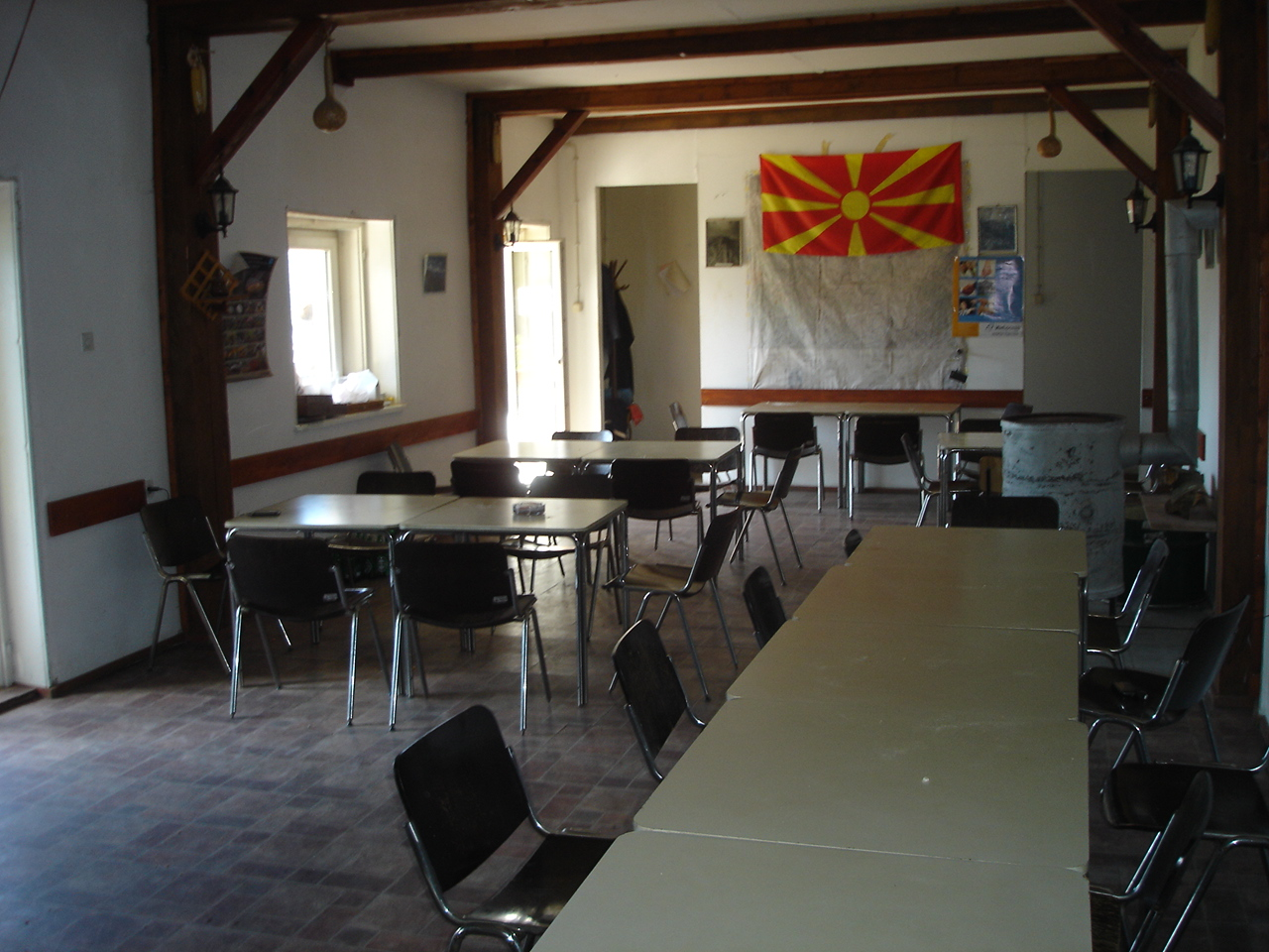 Interior and the dining hall of mountain hut Karadzica, Macedonia